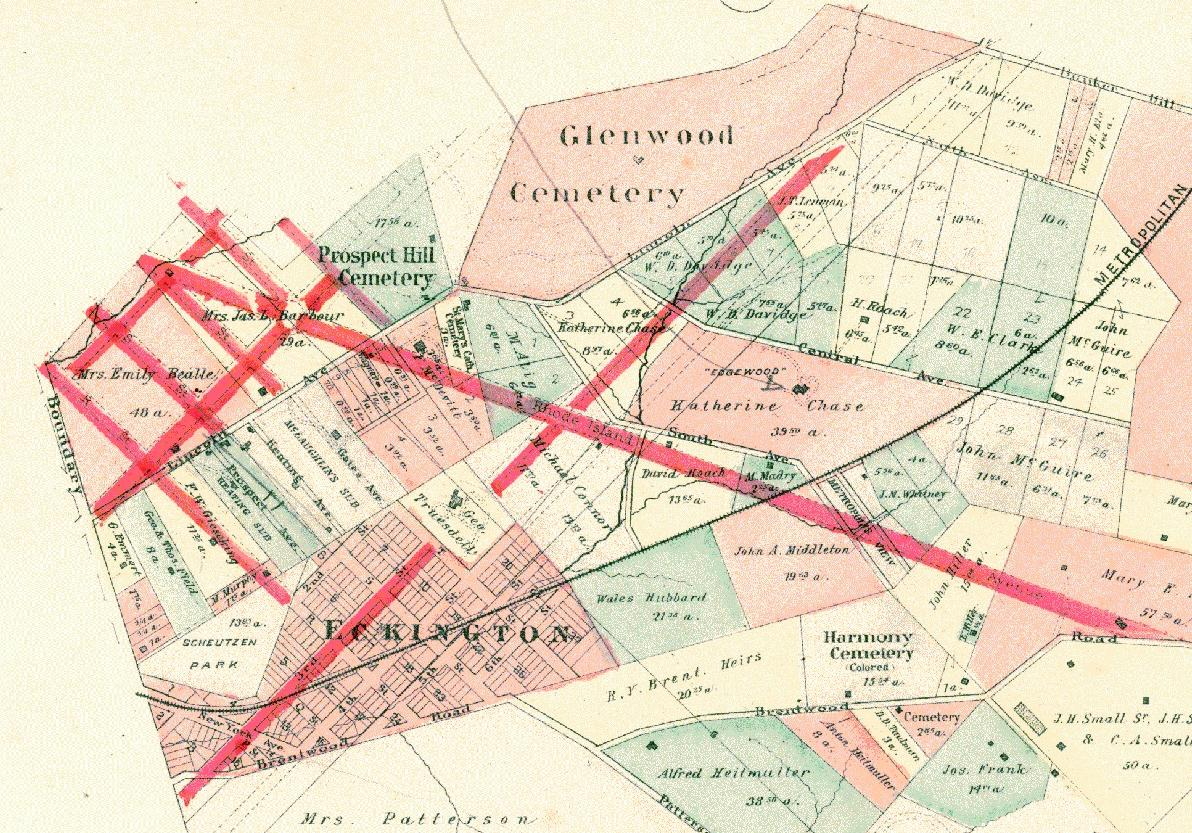 When Salmon P. Chase died in 1873, his daughter, Katherine Chase Sprague, became the estate's owner and lived there until her death in 1899.